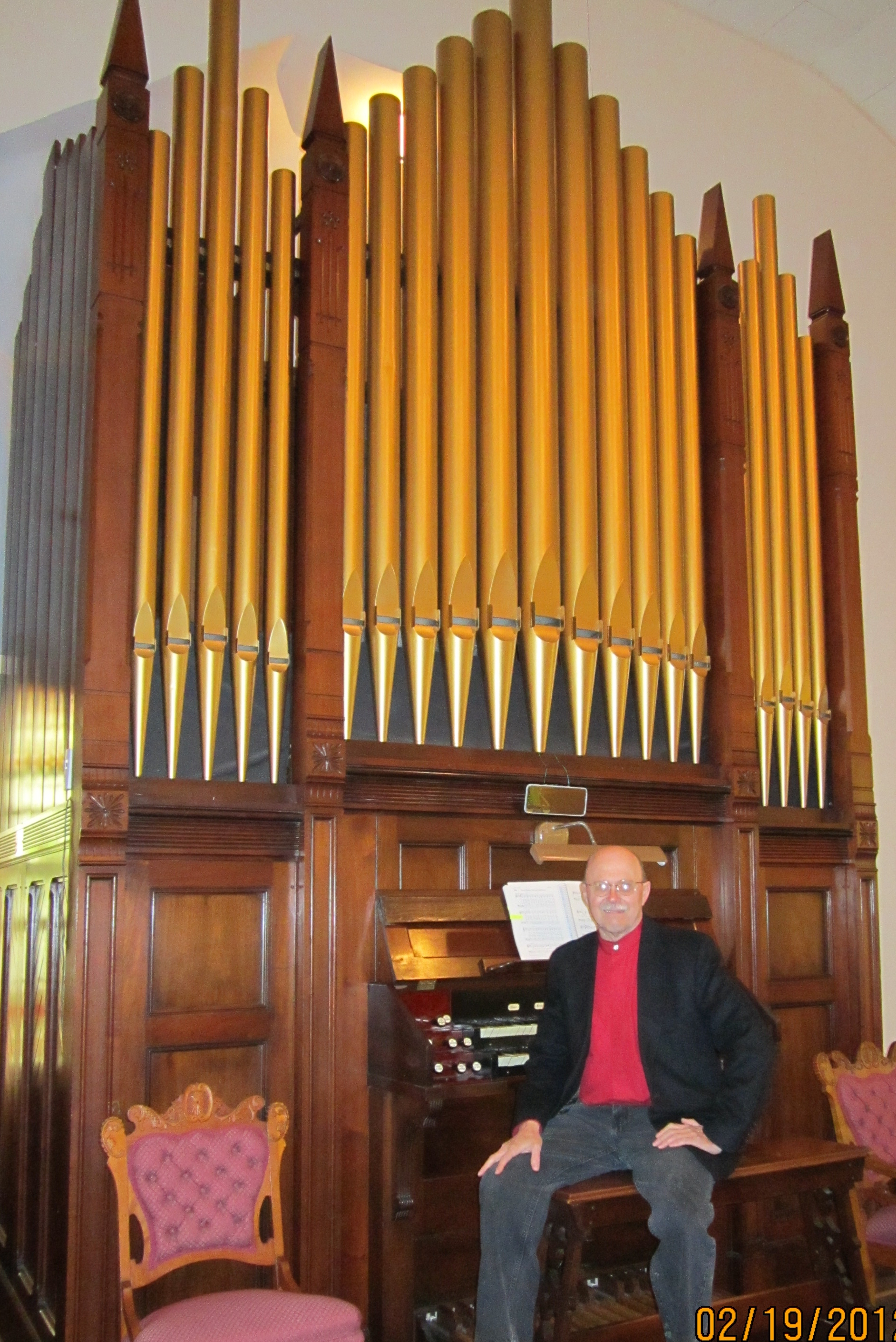 Pipe organ donated to the Kirksville Christian Church by Lancaster Christian Church in the 50's.